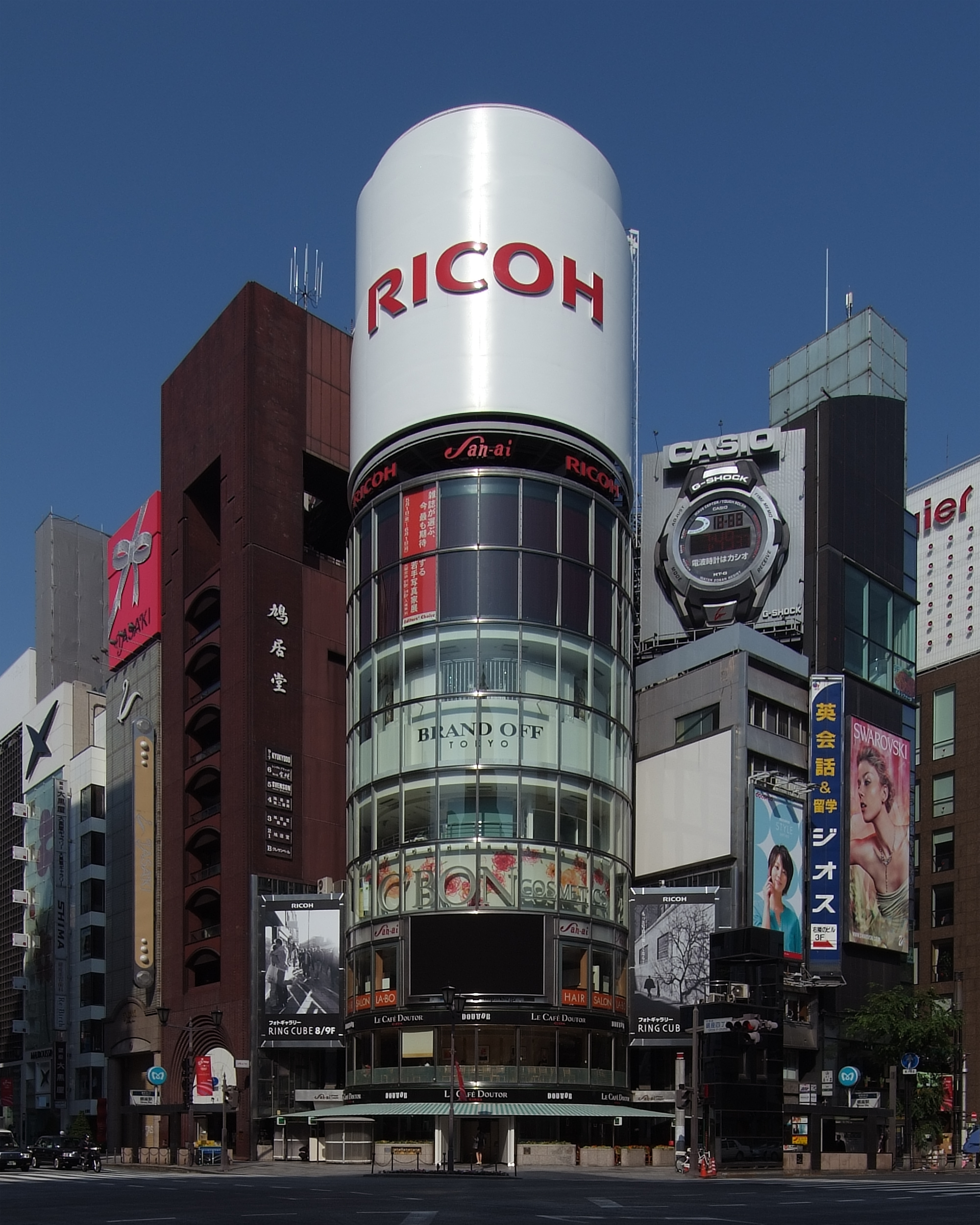 San-ai Dream Center, at Ginza Tokyo Japan. Design by Shoji Hayashi (Nikken Sekkei Ltd) in 1962.